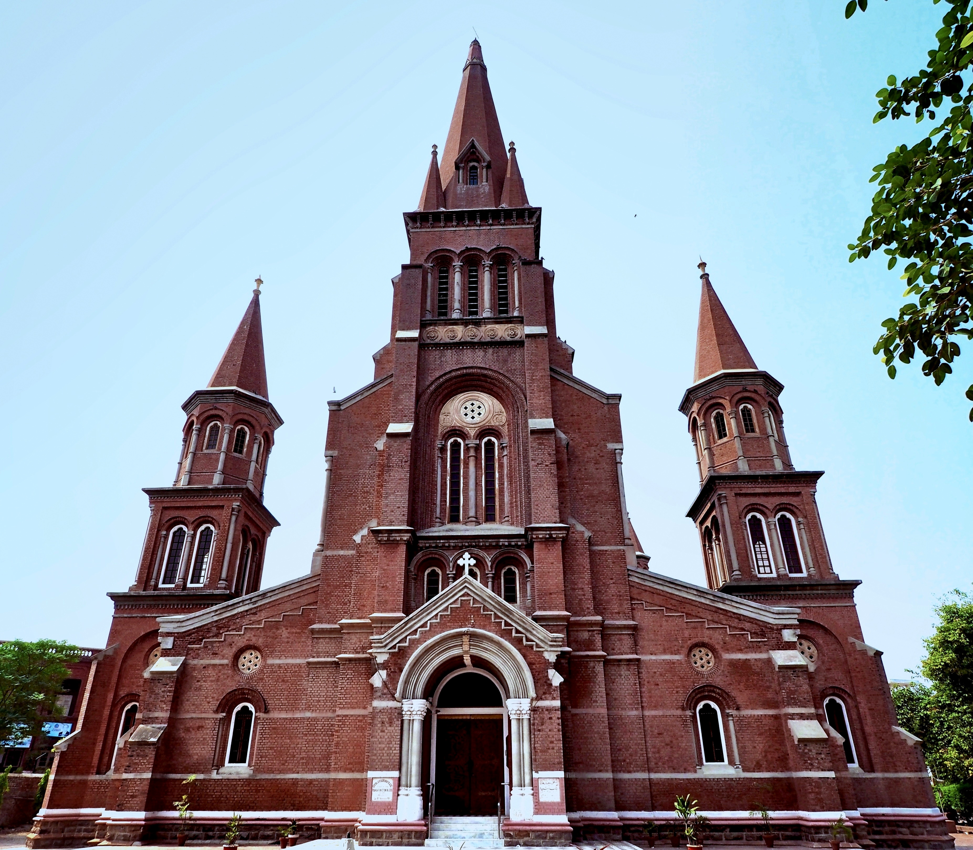 Sacred Heart Cathedral This is a photo of a monument in Pakistan identified as the PB-U-34